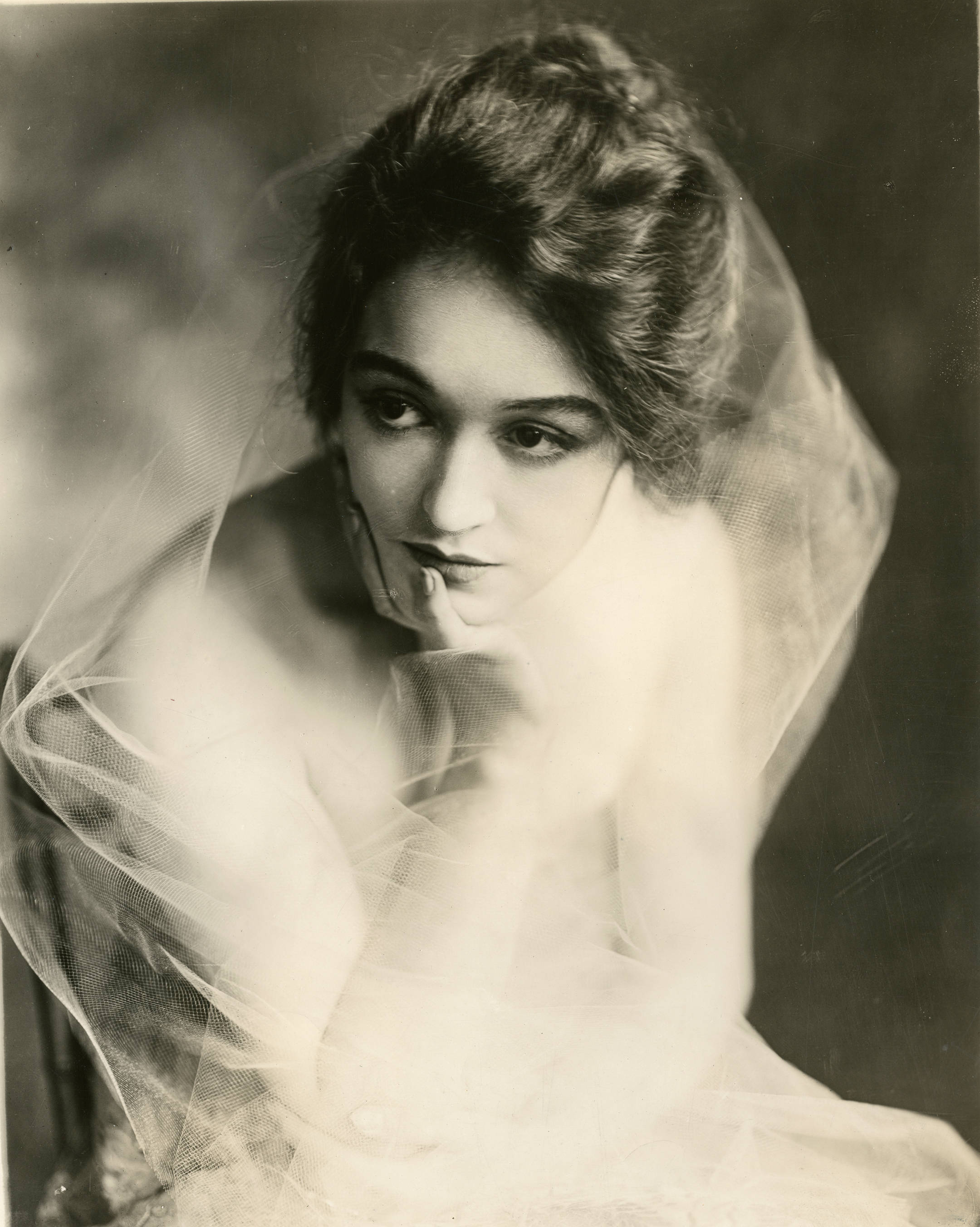 Film actress Gladys Brockwell. Subjects: actresses